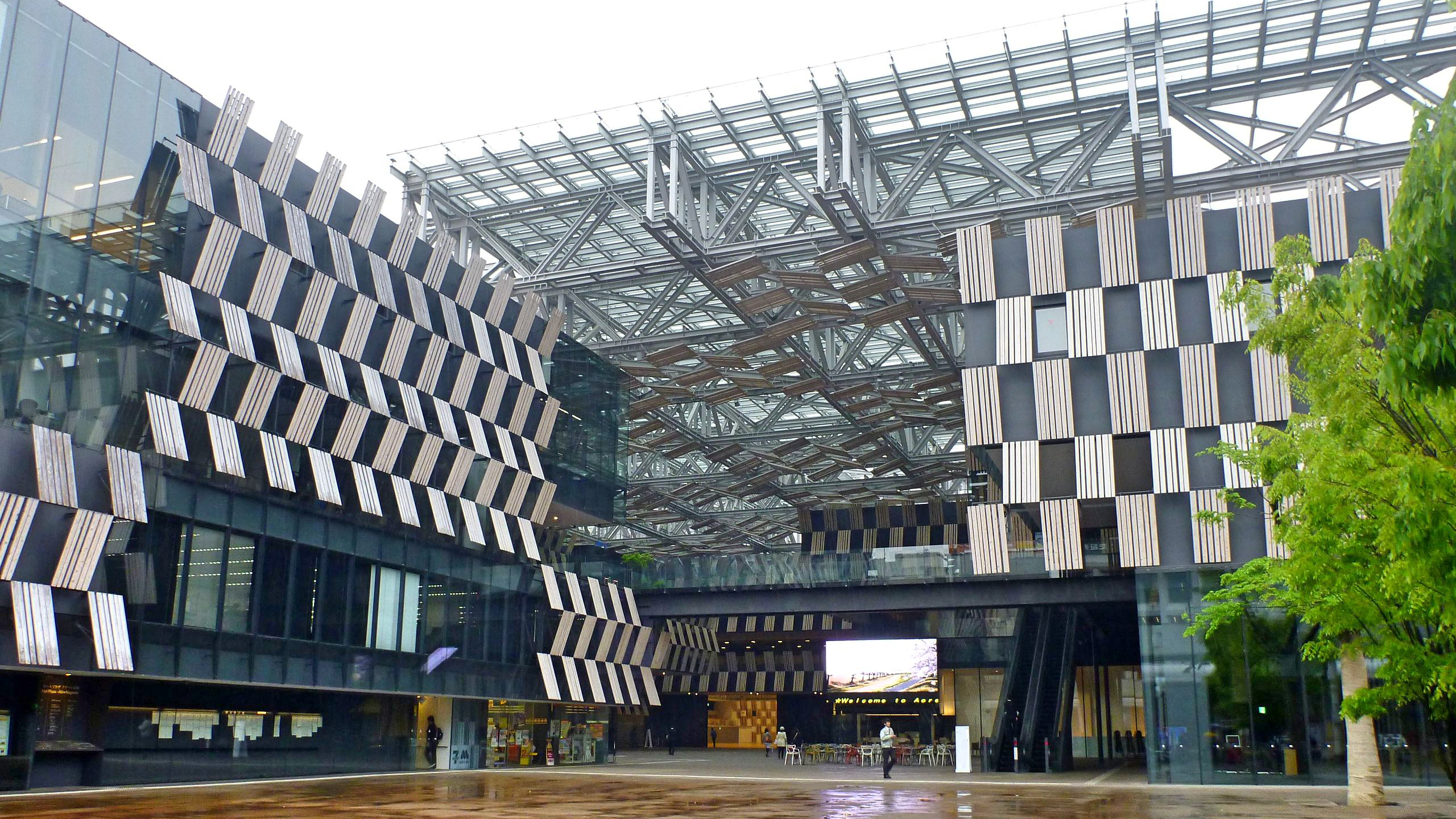 City Hall Plaza Ao-re Nagaoka in Nagaoka, Niigata Prefecture, Japan